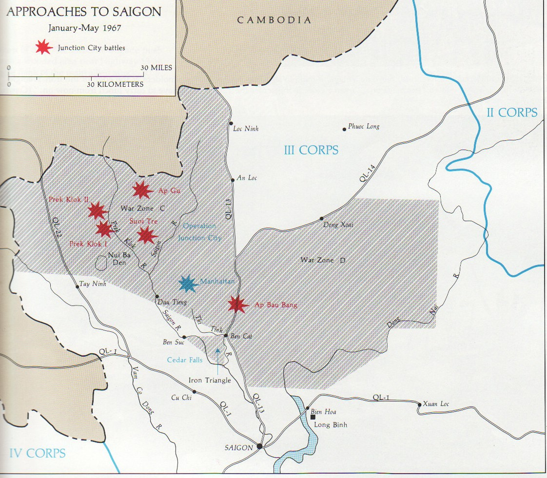 From Joel D. Meyerson, Images of a Lengthy War. Washington DC: US Army Center of Military History, 1986.